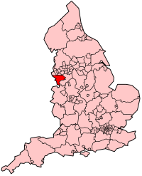 Map showing location of Cheshire West & Chester Unitary Authority (effective 1st April 2009) in England.